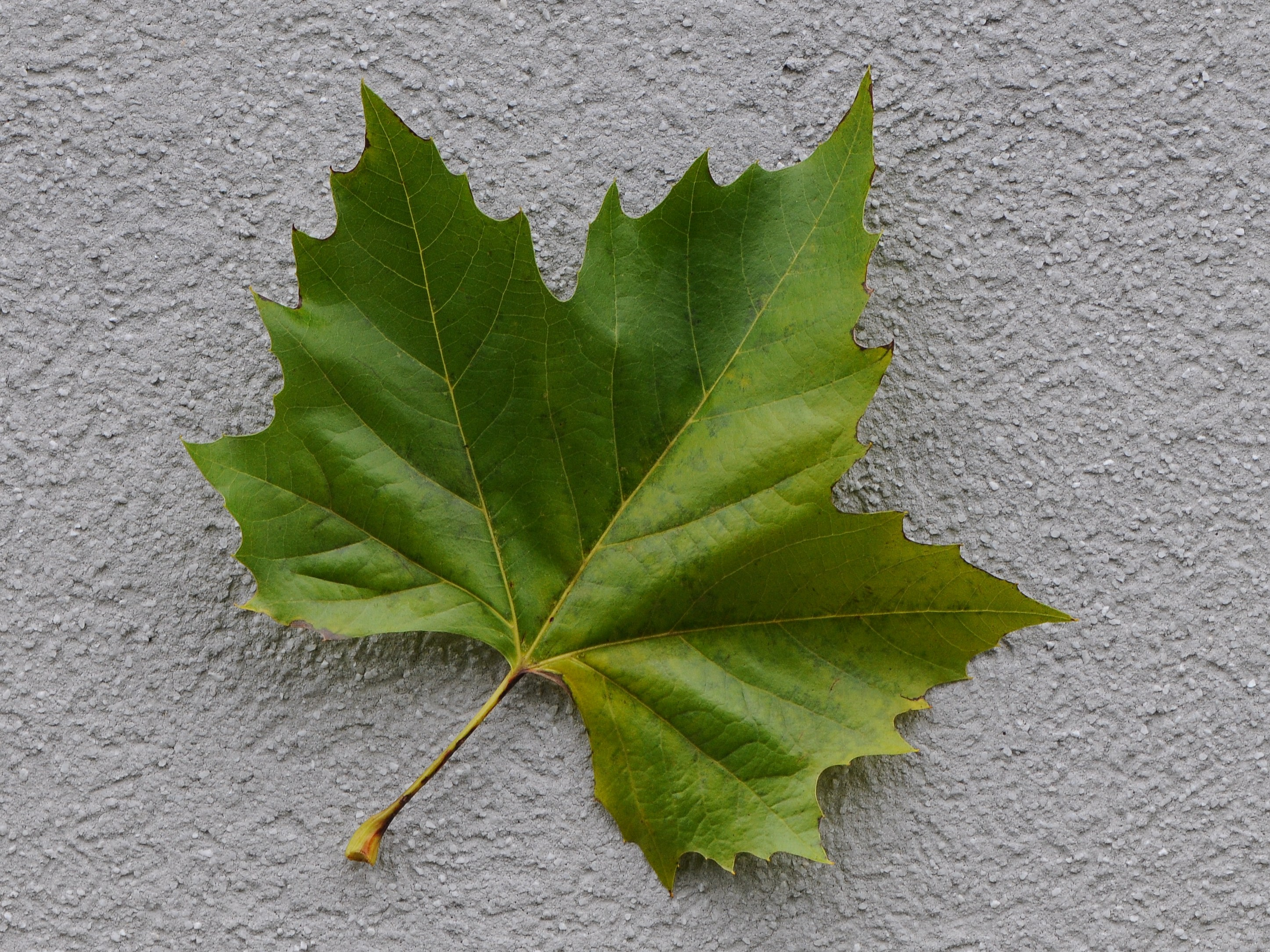 Platanus × hispanica